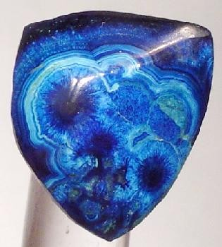 Azurite Locality: Copper Queen Mine (Halero Mine), Queen Hill, Bisbee, Warren District, Mule Mts, Cochise County, Arizona, USA (Locality at ) Expert lapidary work is apparent in this free-form carving by renowned azurite-malachite specialist Bud Standley. This is the last of the small lot of four carvings that we obtained. The richness of the concentric banding of lighter blue against deep indigo is revealed by the excellent polish. A bit of malachite adds a nice contrast. This material is from the famous Copper Queen Mine at Bisbee. 1.4 x 1.2 x 0.5 cm